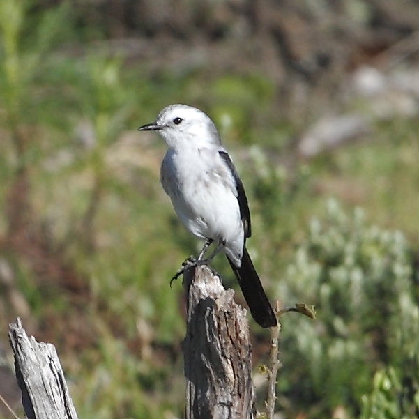 Black-an-white monjita (female) at Urupema - SC - Brazil